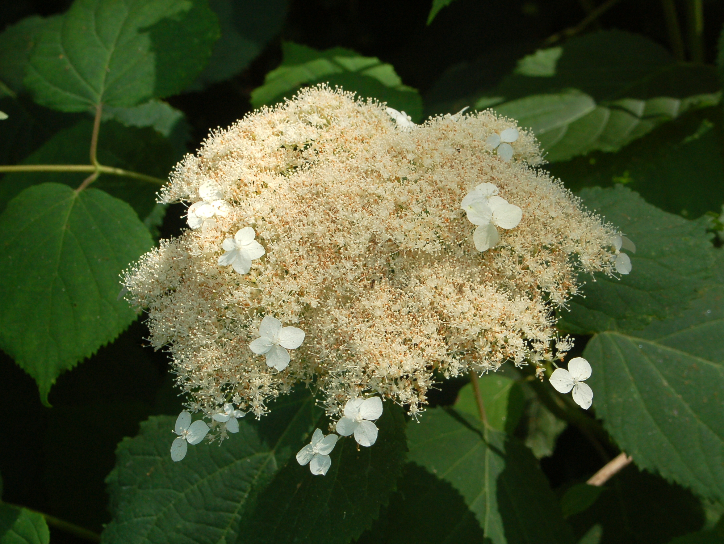 Inflorescence of Hydrangea radiata at the park of Villa Serra, Genova, Italy